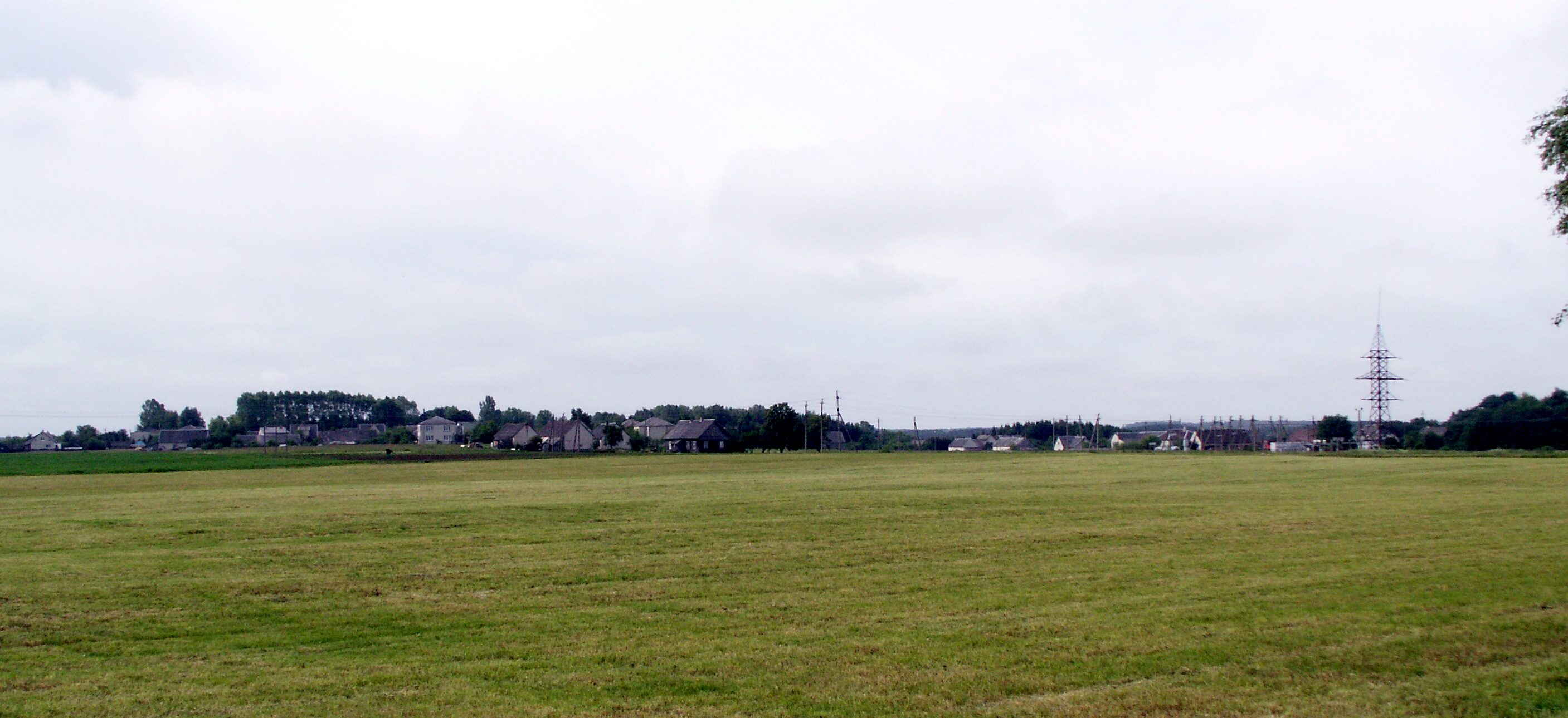 Settlement Baubliai, Kretinga district, Lithuania